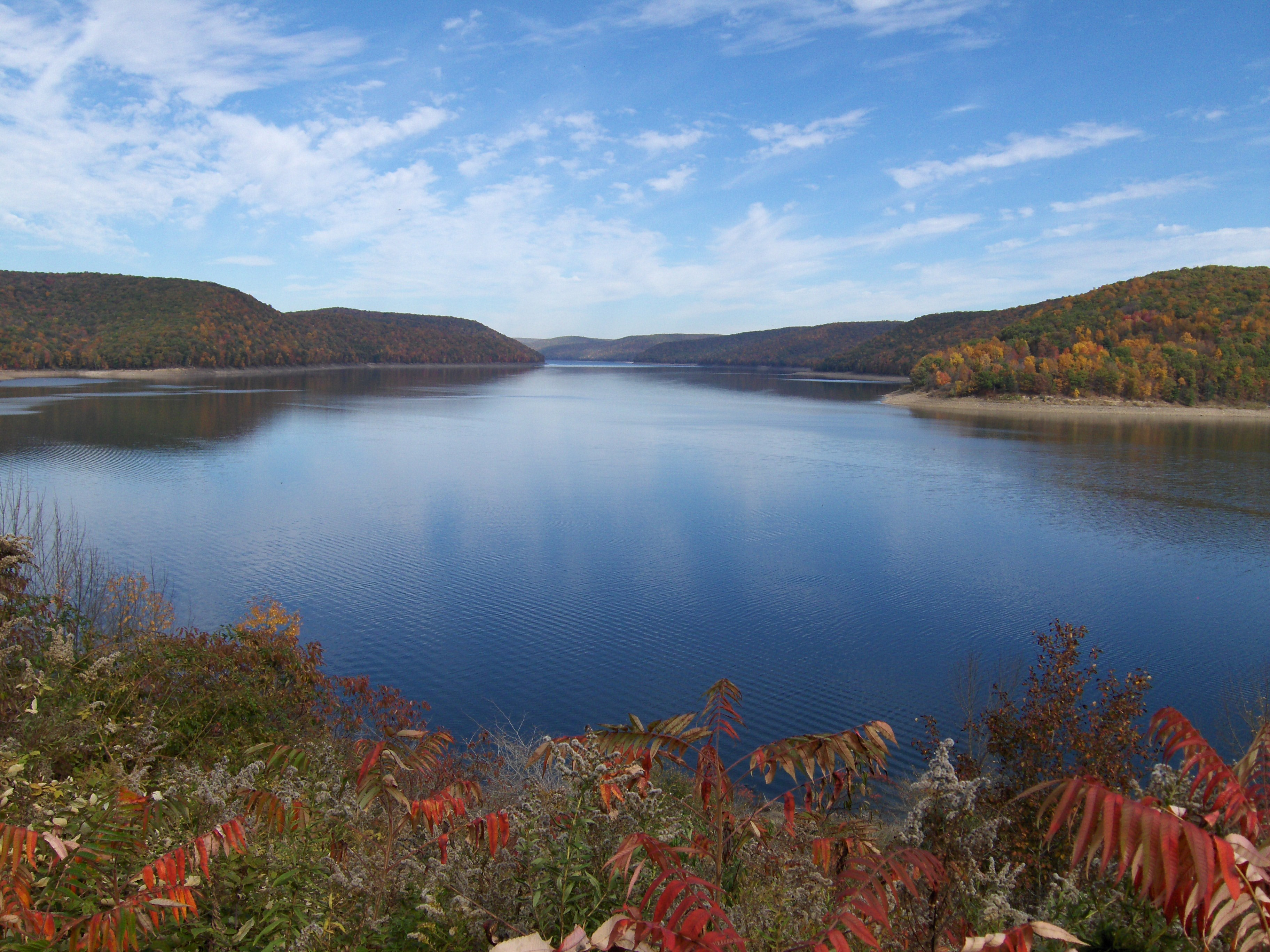 Fall Colors on the Allegheny Reservoir on the Bradford Ranger District on the Allegheny National Forest in Pennsylvania. The U.S. Forest Service (FS) has a Forest Service 2012 Fall Colors Website and a toll-free Fall Colors Hotline at 1-800-354-4595 that will help visitors plan their trip to catch the colors at their peaks. USDA photo by J. Knowlton.